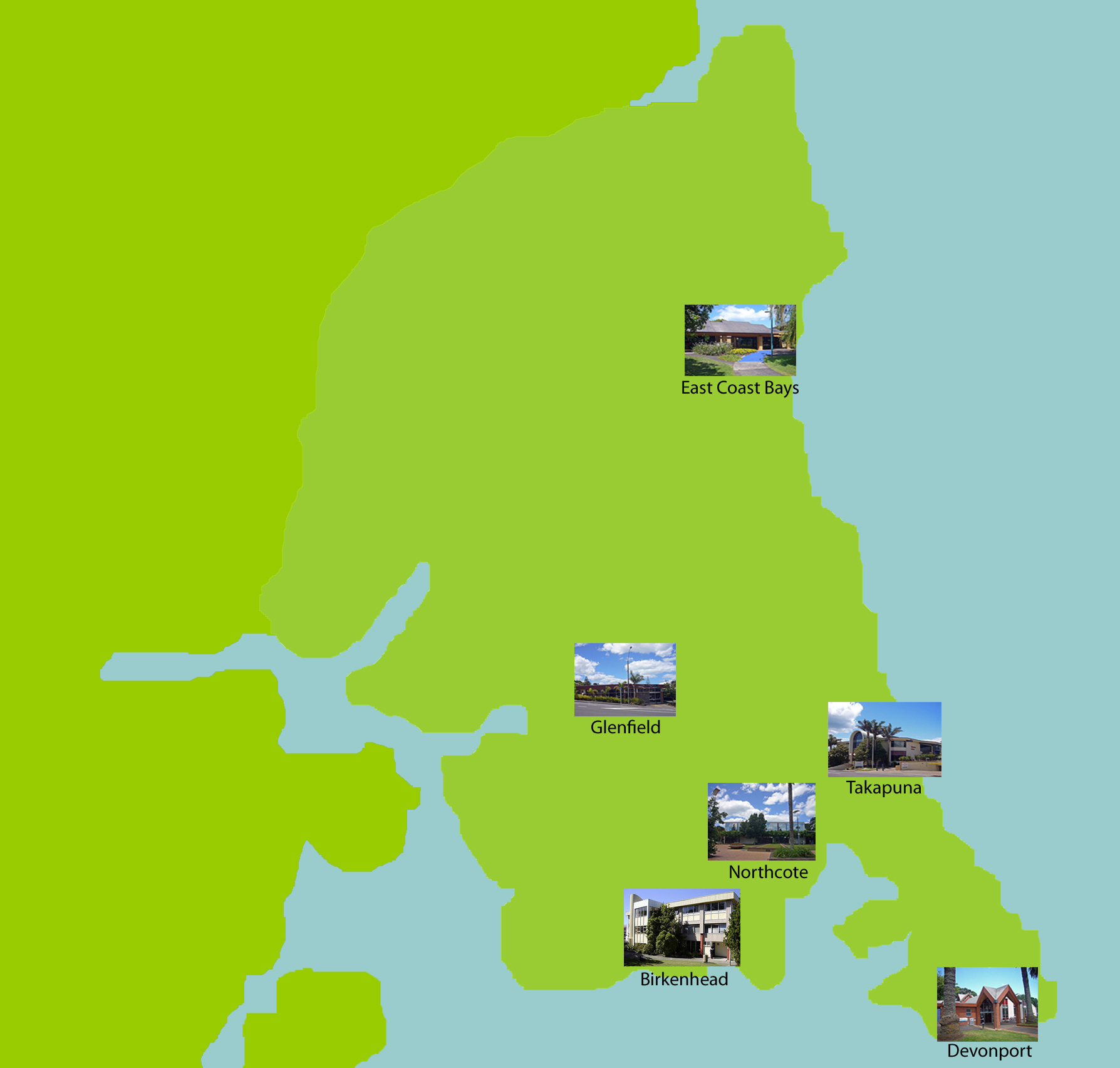 Map of North Shore Libraries at Amalgamation in 1989. Does not include Mobile Libraries. Note too, Birkenhead is still at Nell Fisher Reserve location. Albany Library started 2004.